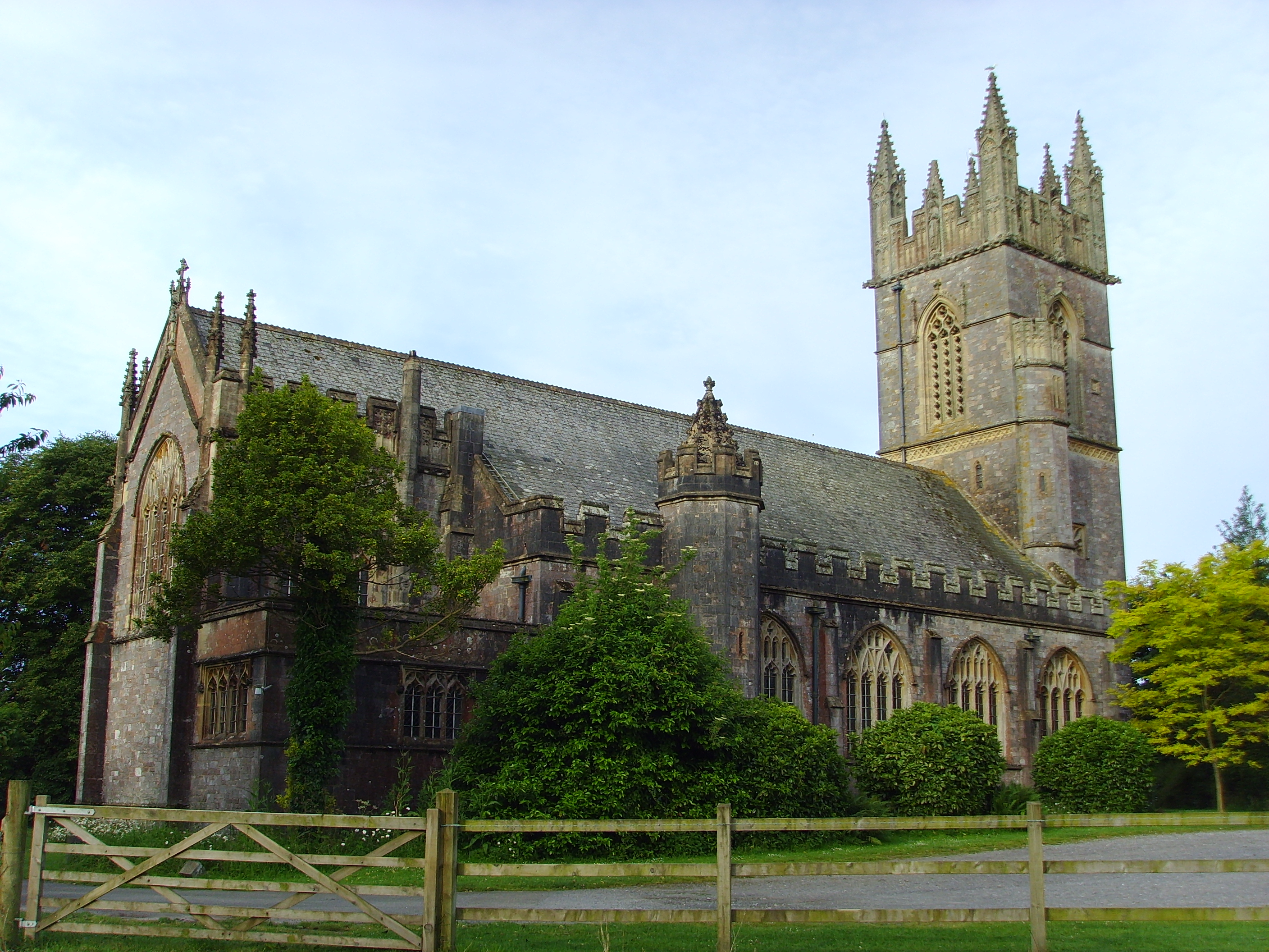 Dartington Church, Devon, UK